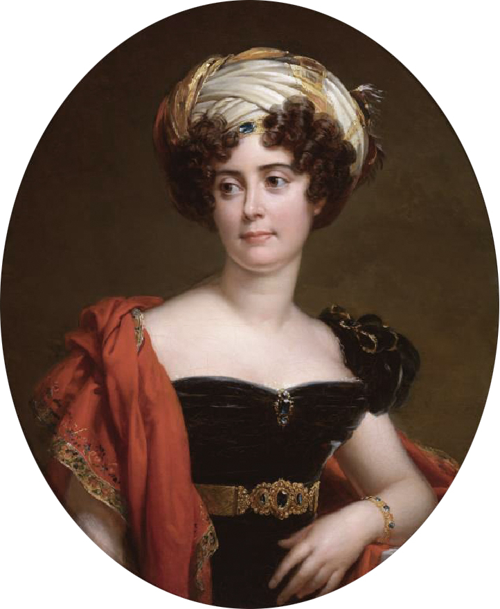 Blanche-Joséphine Le Bascle d'Argenteuil, duchesse de Maillé (1787-1851) oil on canvas 73.3 x 60.32 cm